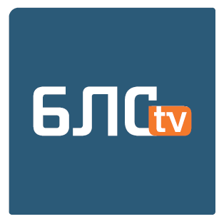 alternative Belsat TV logo for use in Belarus only